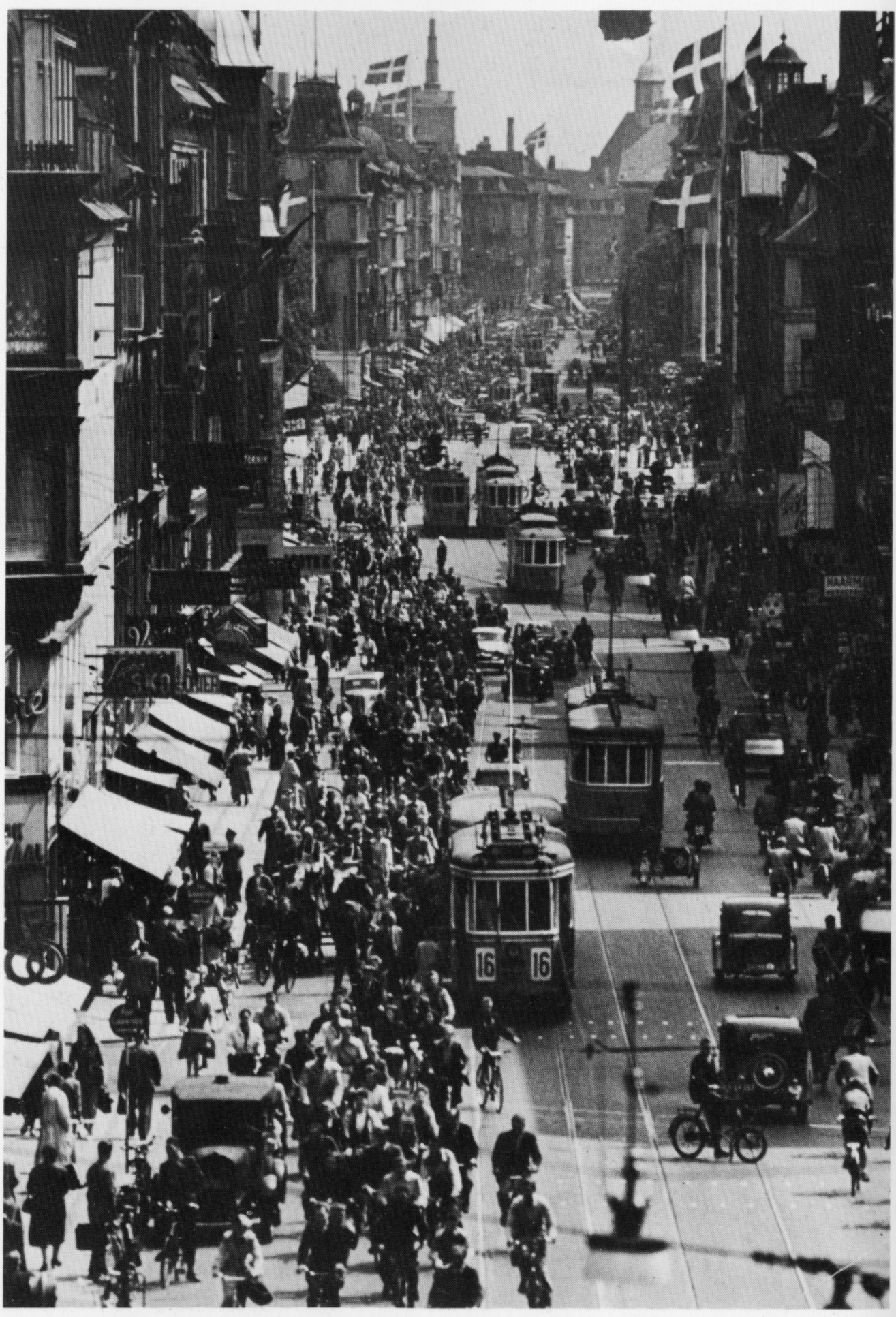 Nørrebrogade, Copenhagen with many cyclists and trams